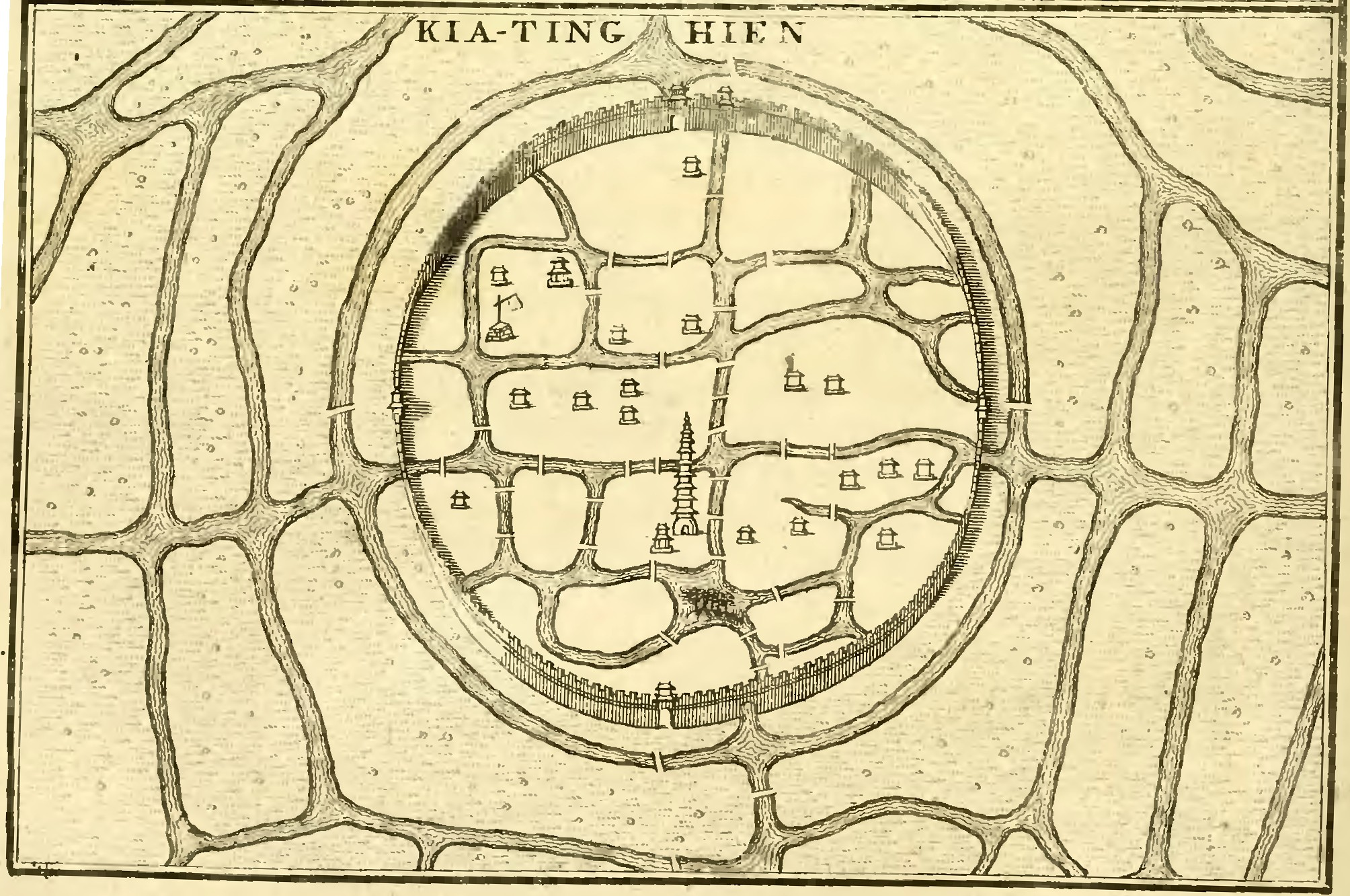 Maps of Jiading taken from Du Halde, Description de la Chine, vol 1, 1736